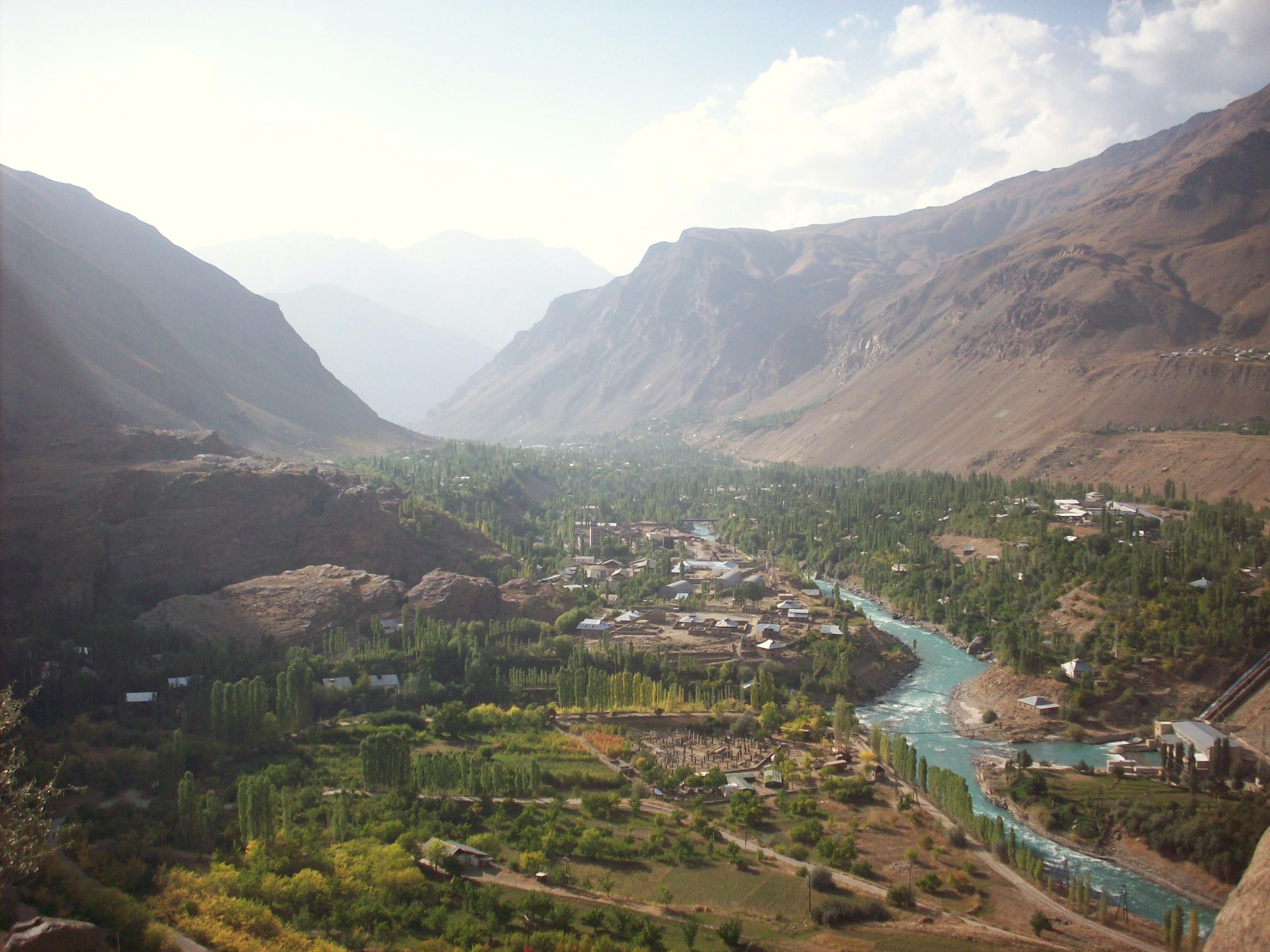 View of Khorog from the Botanical Gardens